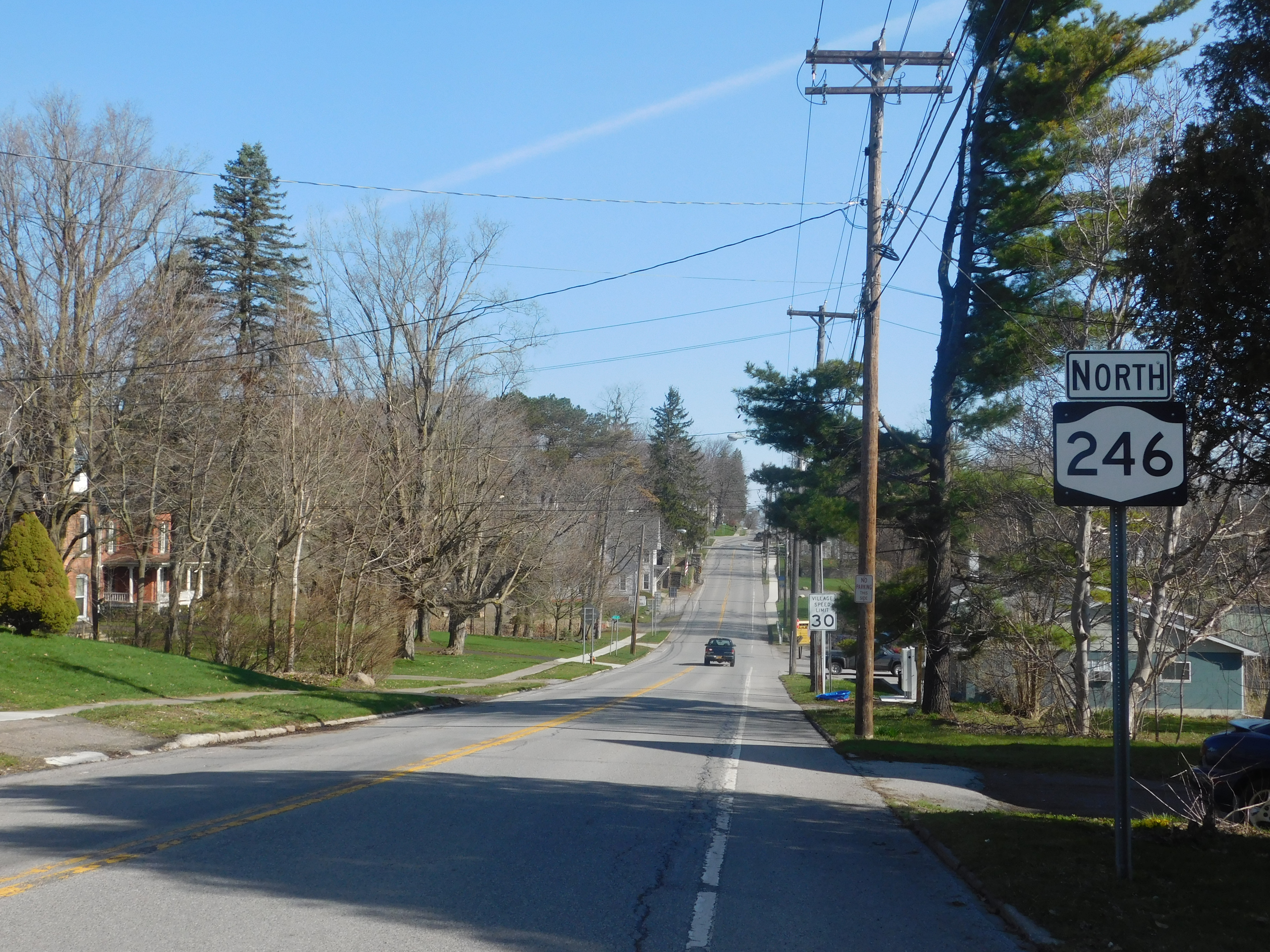 New York State Route 246 northbound in Perry, New York.